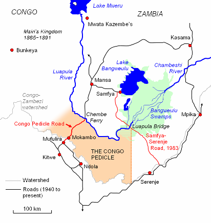 Congo Pedicle Map showing neighbouring Congo and Zambia, Luapula River, Congo-Zambezi watershed, Congo Pedicle Road, Samfya-Serenje road